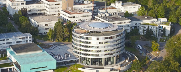 The EMBL Heidelberg buildings, with the new Advanced Training Centre as the main focus.